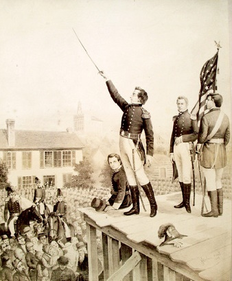 Last Public Address of Lieut. Gen. Joseph Smith, after John Hafen (1856-1910), no date, original 1888. Albumen silver print of a lithograph. Graphic Arts Collection. GA 2012